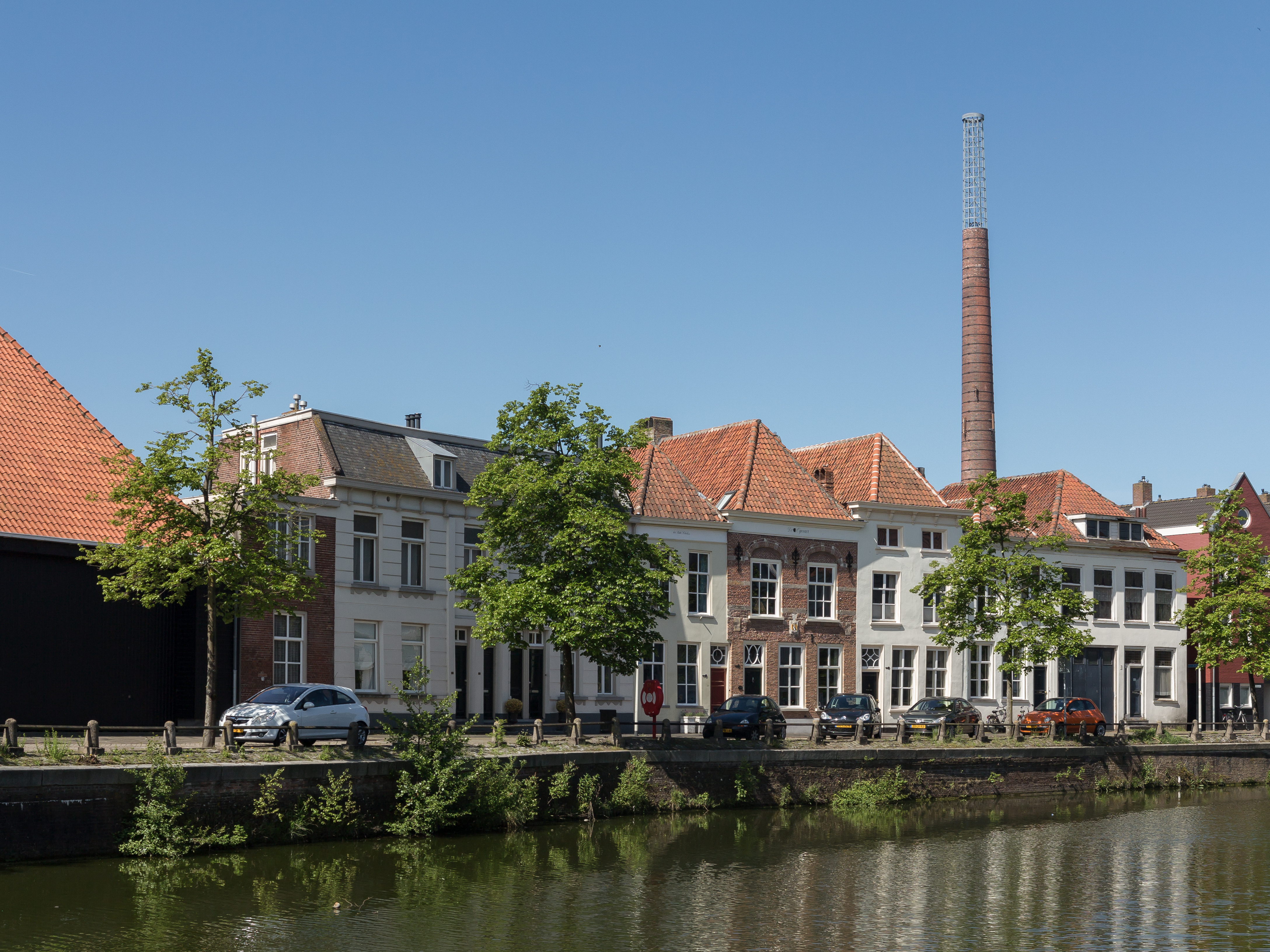 Bergen op Zoom, street view: de Zuidzijde Haven